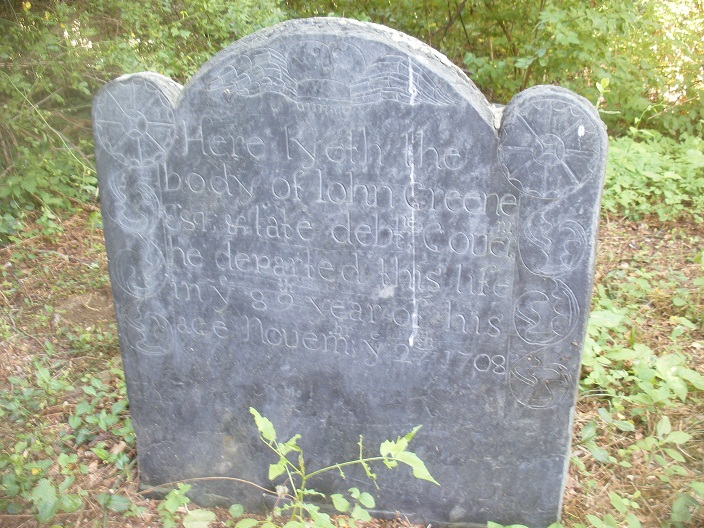 Grave marker for Rhode Island deputy governor John Greene, Jr., Spring Green Cemetery, Spring Green Farm, Warwick, Rhode Island